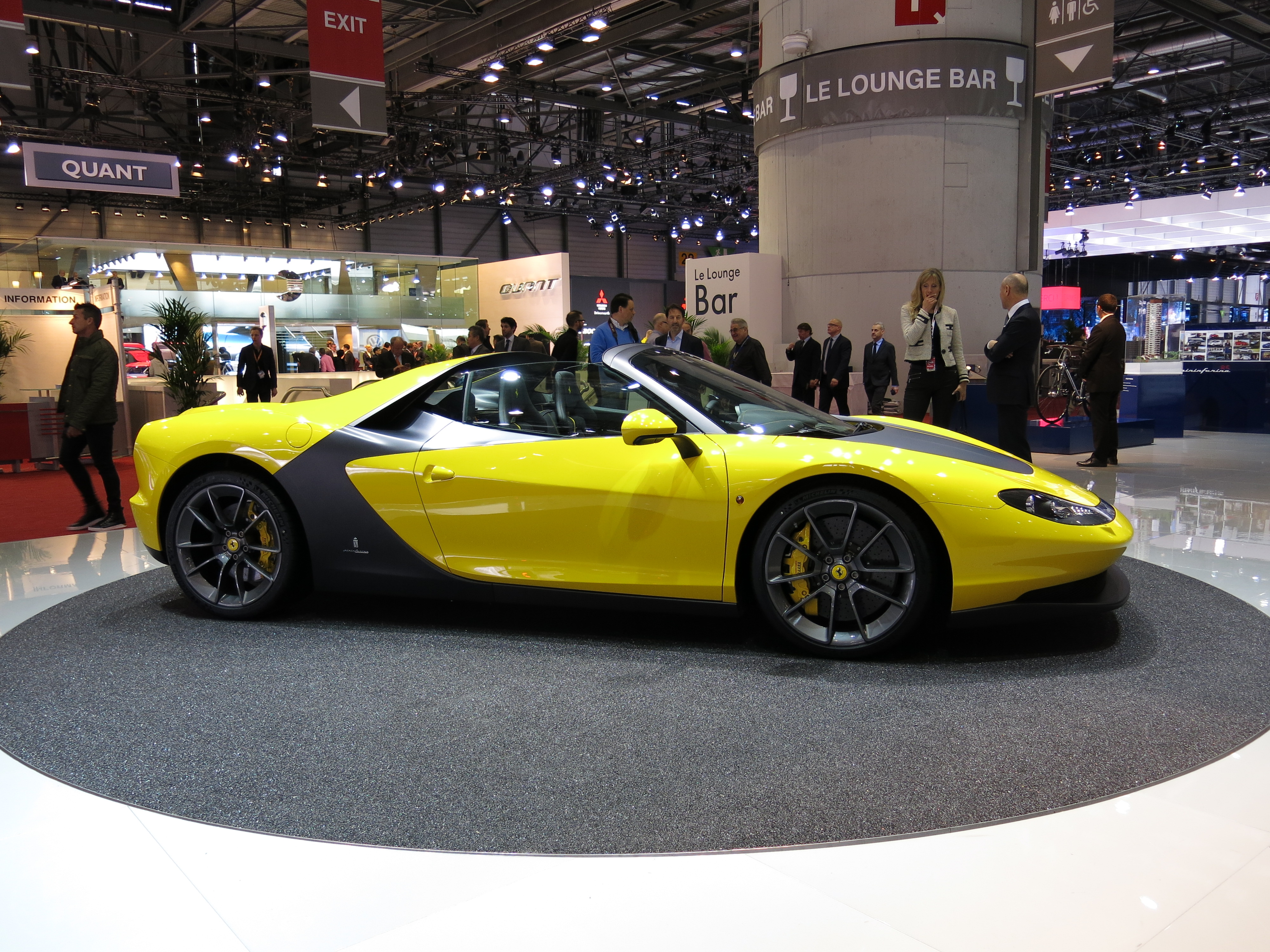 Geneva Motor Show 2015 (photo taken on the first press day)